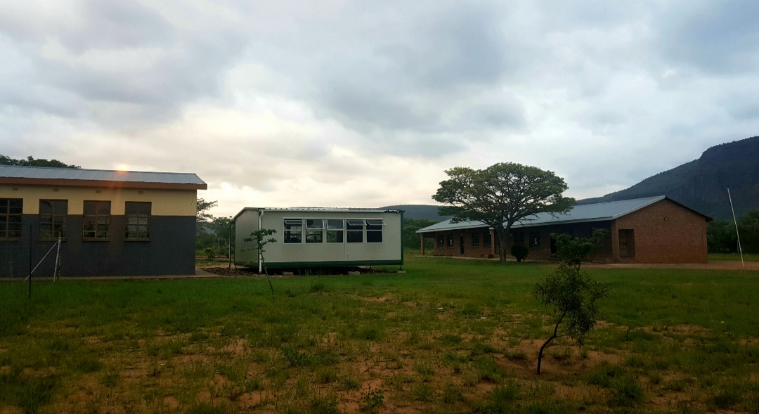 Picture of Mookamedi Secondary School captured in 2019.